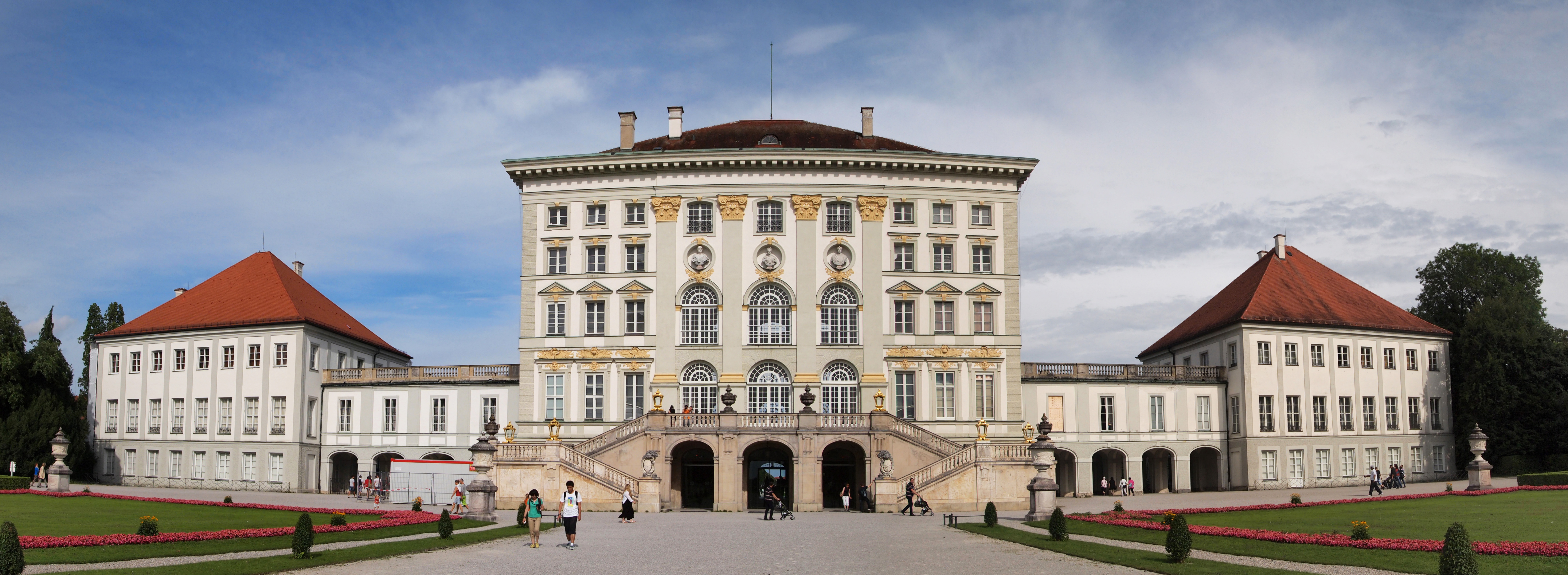 Nymphenburg Palace, Munich. This photograph was taken with an Olympus E-PL1